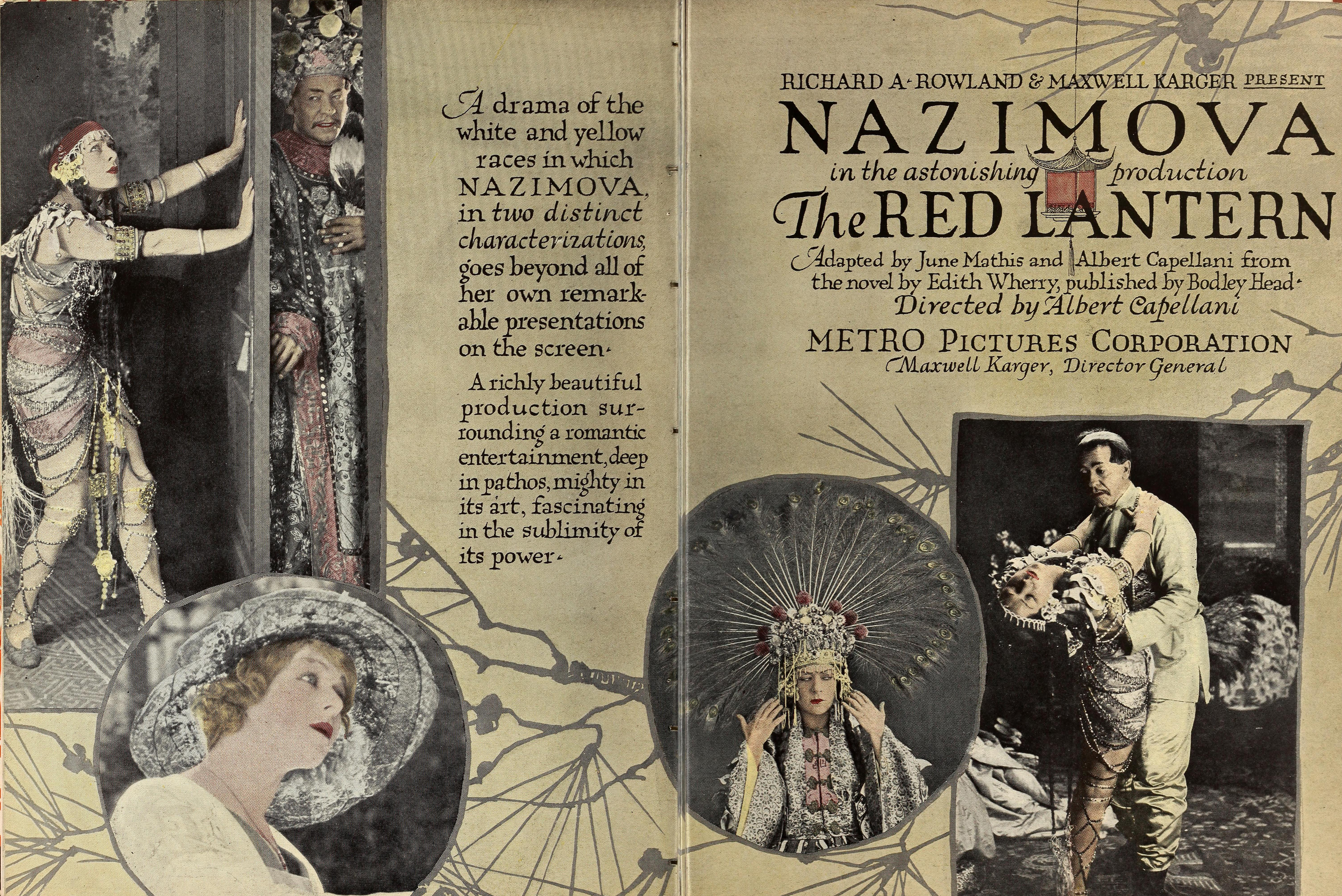 Advertisement in Motion Picture News the American film The Red Lantern (1919) with Alla Nazimova and Noah Beery.